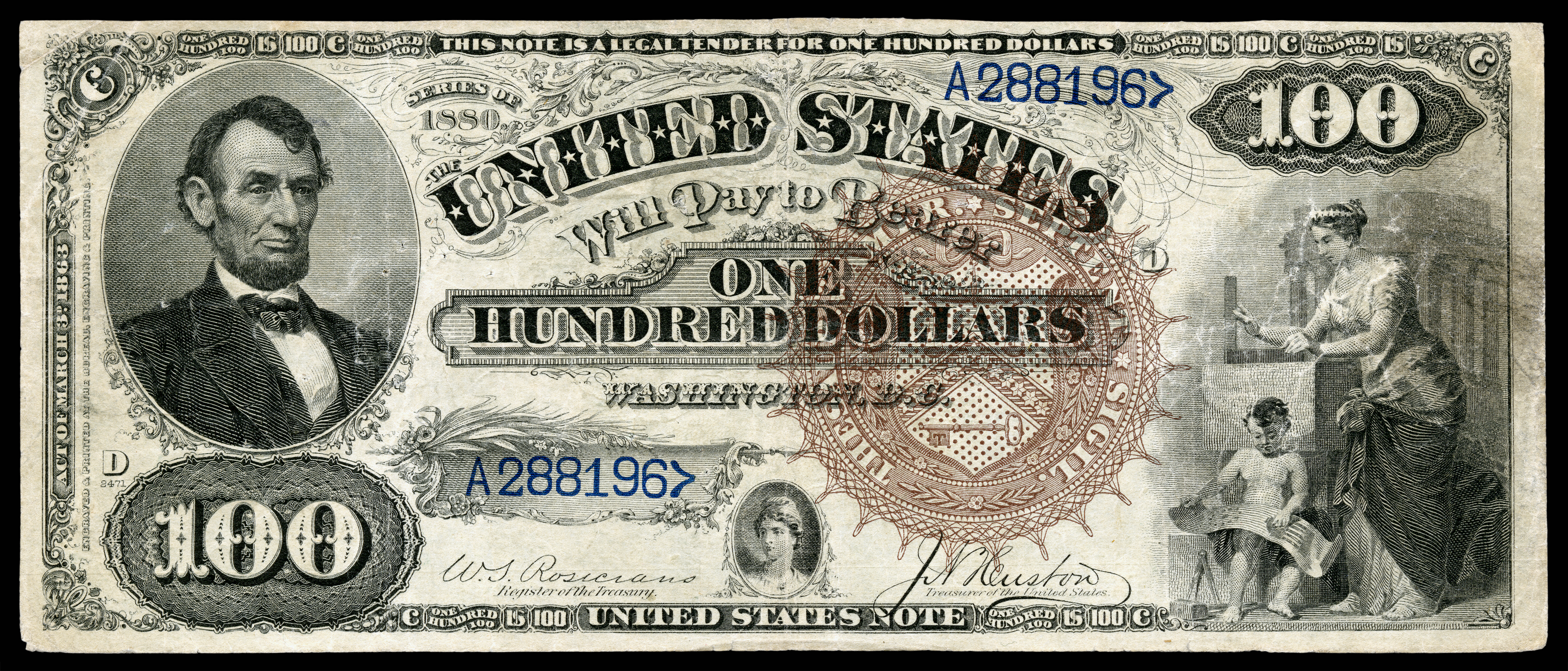 Face only of a $100 Legal Tender Note from the Series 1880. Engraved signatures of Rosecrans (Register of the Treasury) and Huston (Treasurer of the United States).